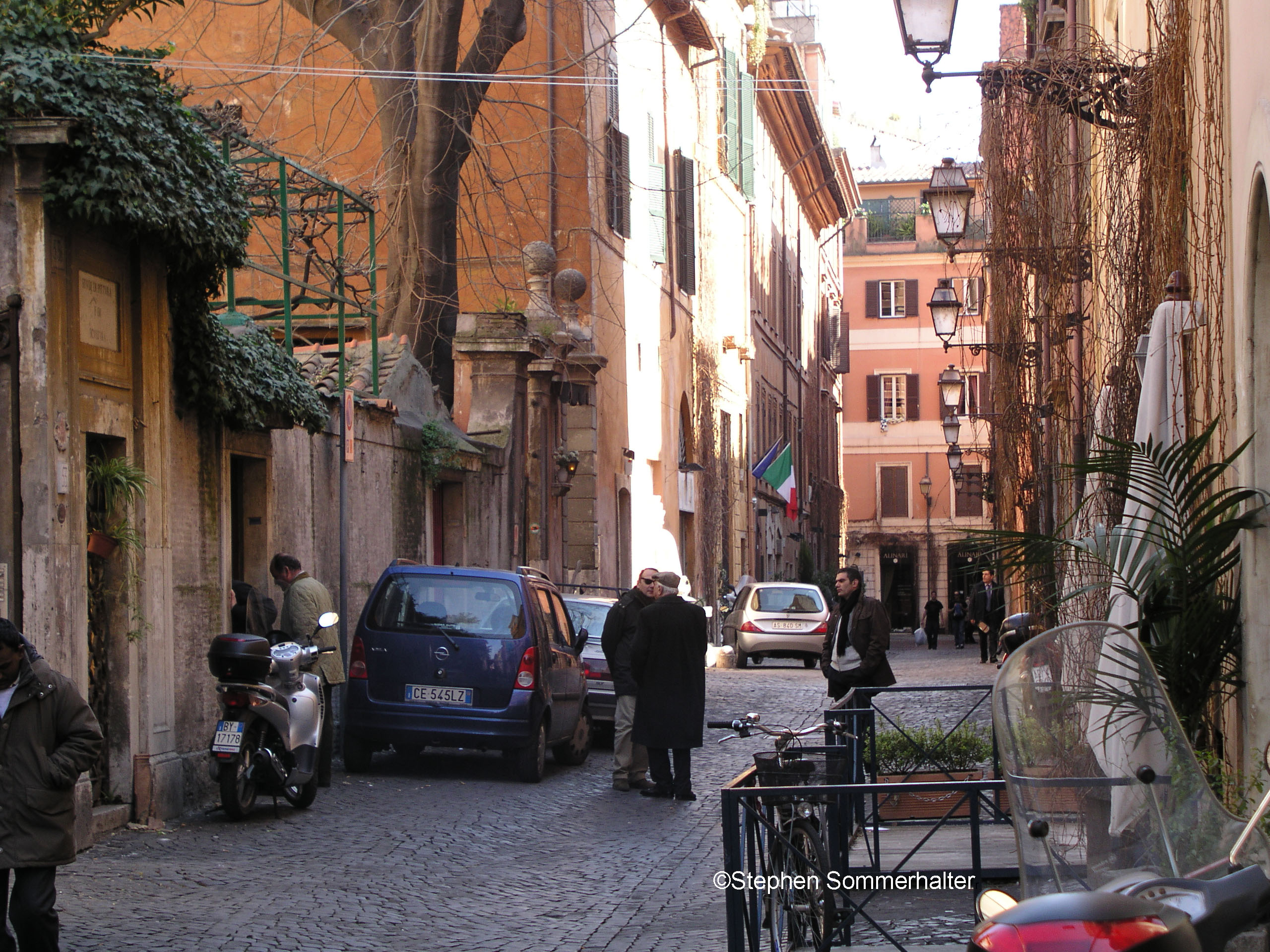 A street scene on via Marguta, Rome